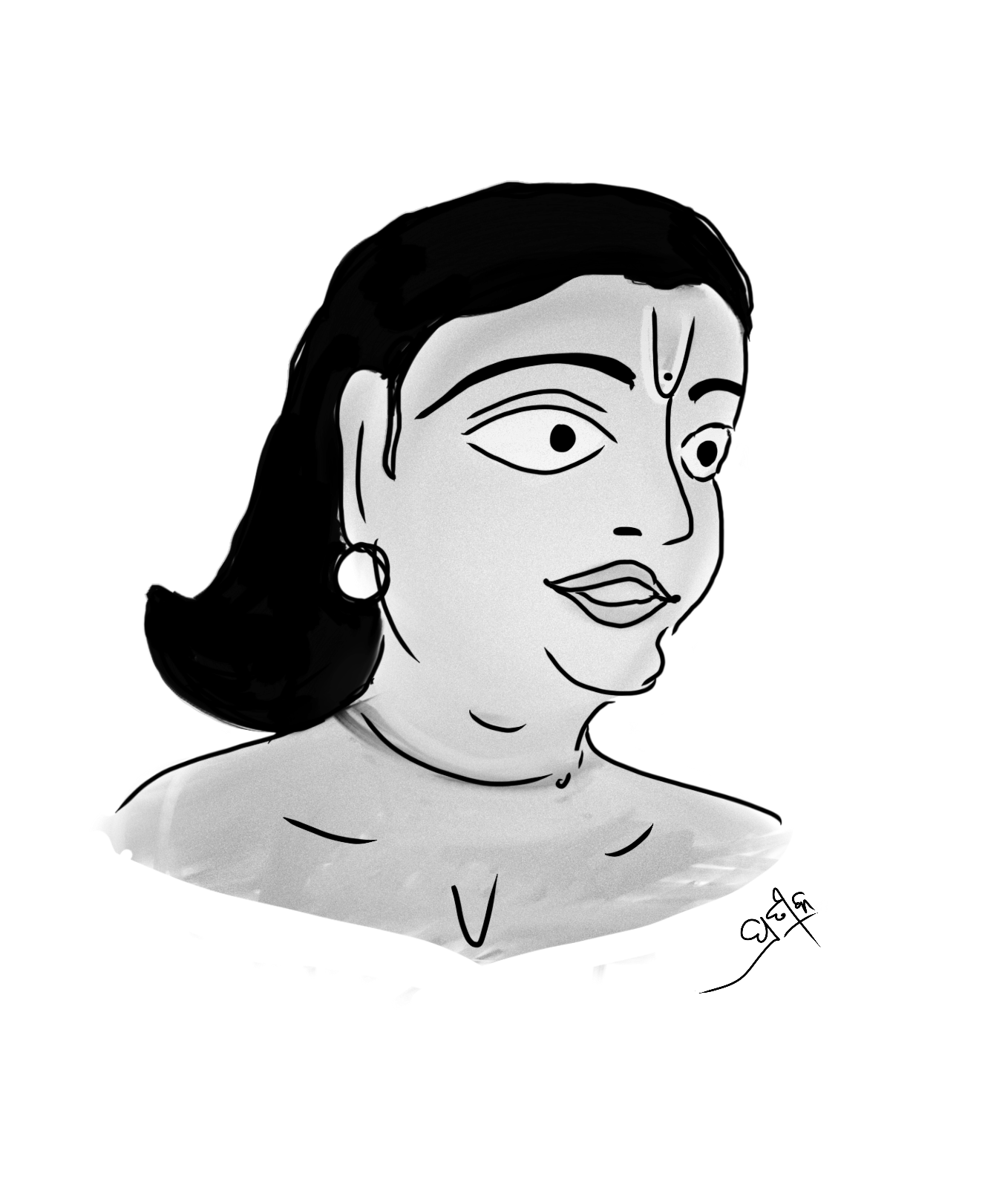 A modern painting of Odia Poet Banamali Das based on popular conception of the poet. This painting is an artistic recreation of the poet due to the utter lack of information about the poet's physical appearance. Created using Procreate for iOS. ଓଡ଼ିଆ: କବି ବନମାଳୀ ଦାସଙ୍କ ଏକ ଚିତ୍ର। Procreate(iOS) ଆପ ଦ୍ୱାରା ଚିତ୍ରିତ ।